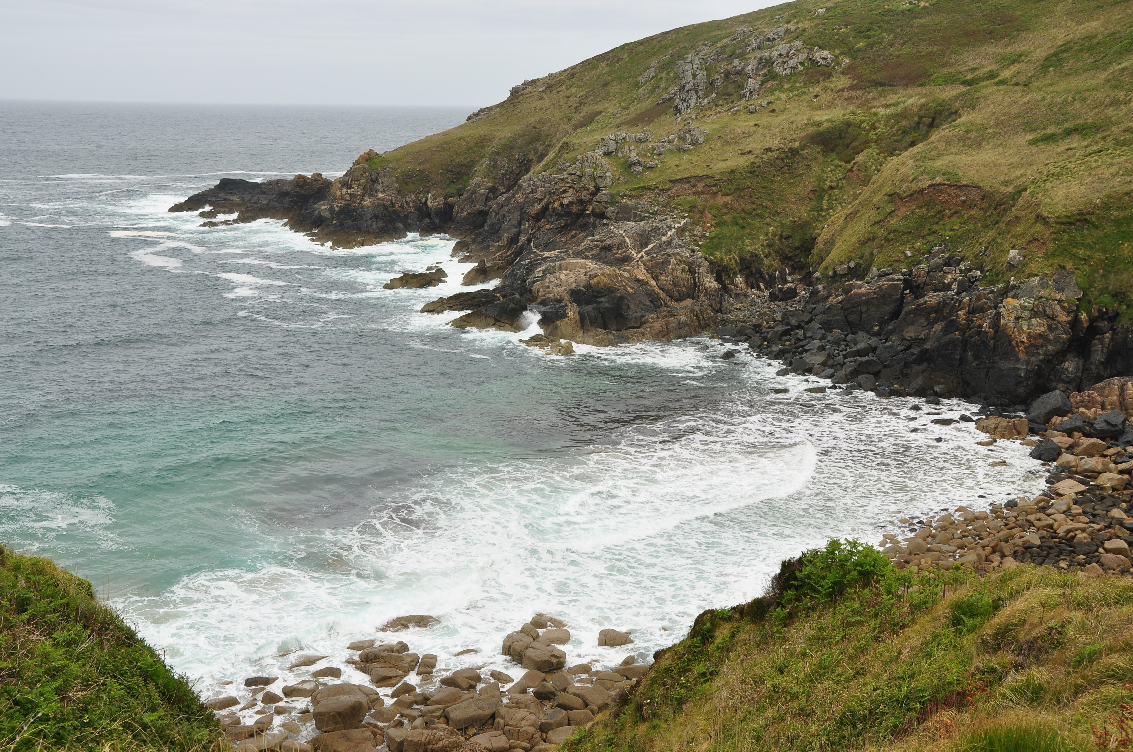 Porthmeor Cove